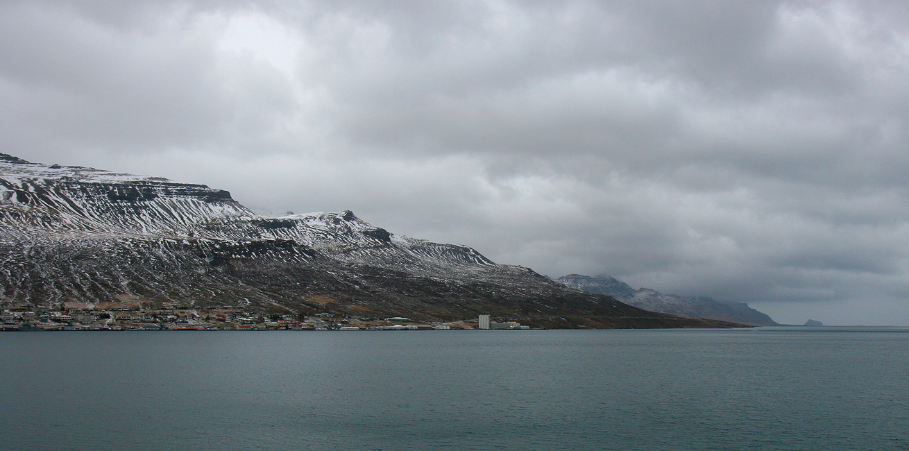 East out of Fáskrúðsfjörður, Andey island at right, November 23 12:27 Iceland, November 2007 Photo by me user:debivort (or friend, with permission given to freely license photo).